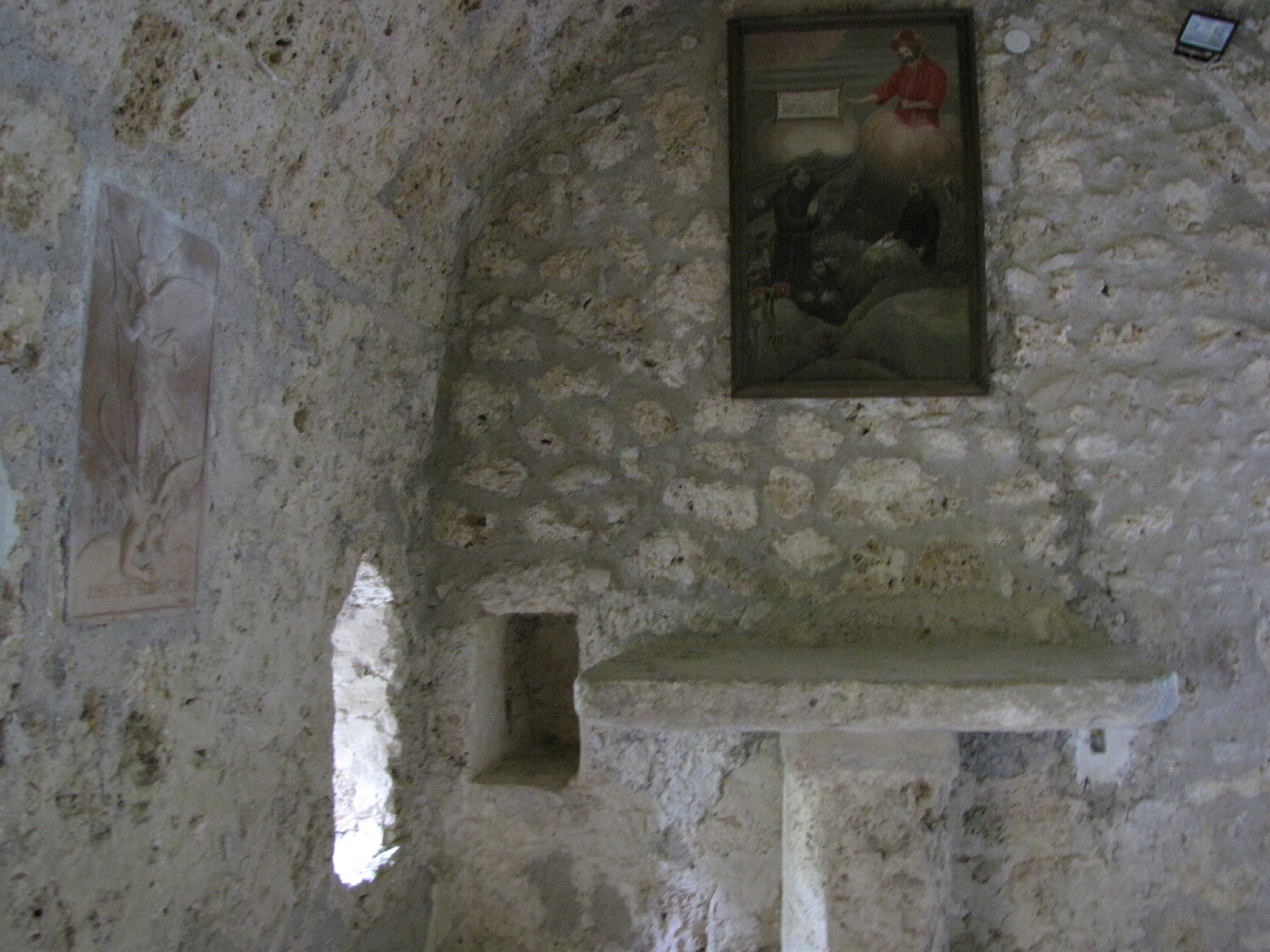 Franciscan sanctuary of Fonte Colombo in Rieti (Lazio, Italy)